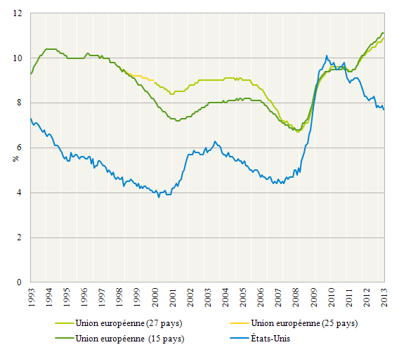 Unemployment rate in Europe (UE) and United States - 1993-2013. Data from EU Commission website (Eurostat) - Monthly seasonnaly adjusted data